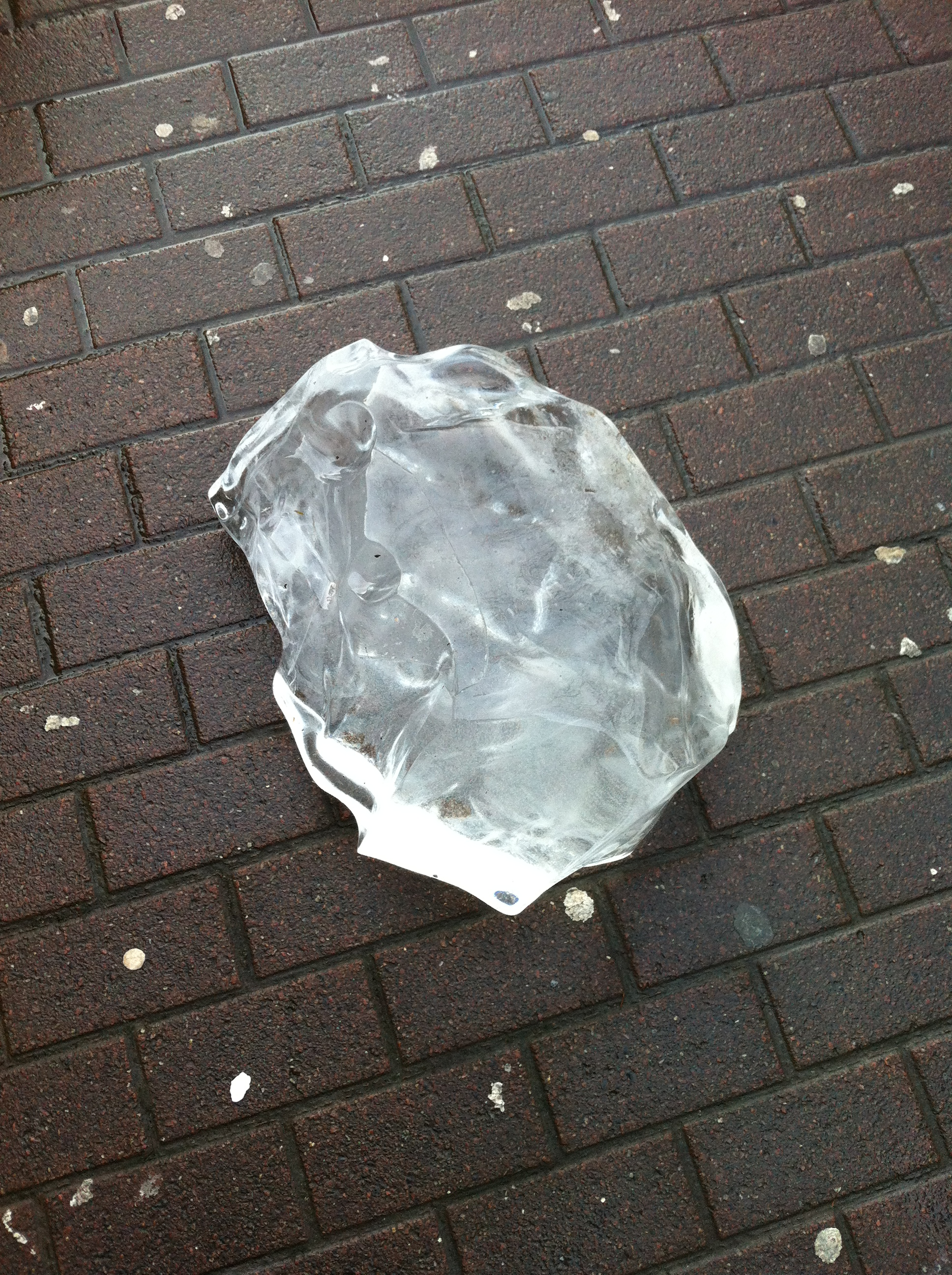 A block of ice on the streets of Gothenburg, 2012